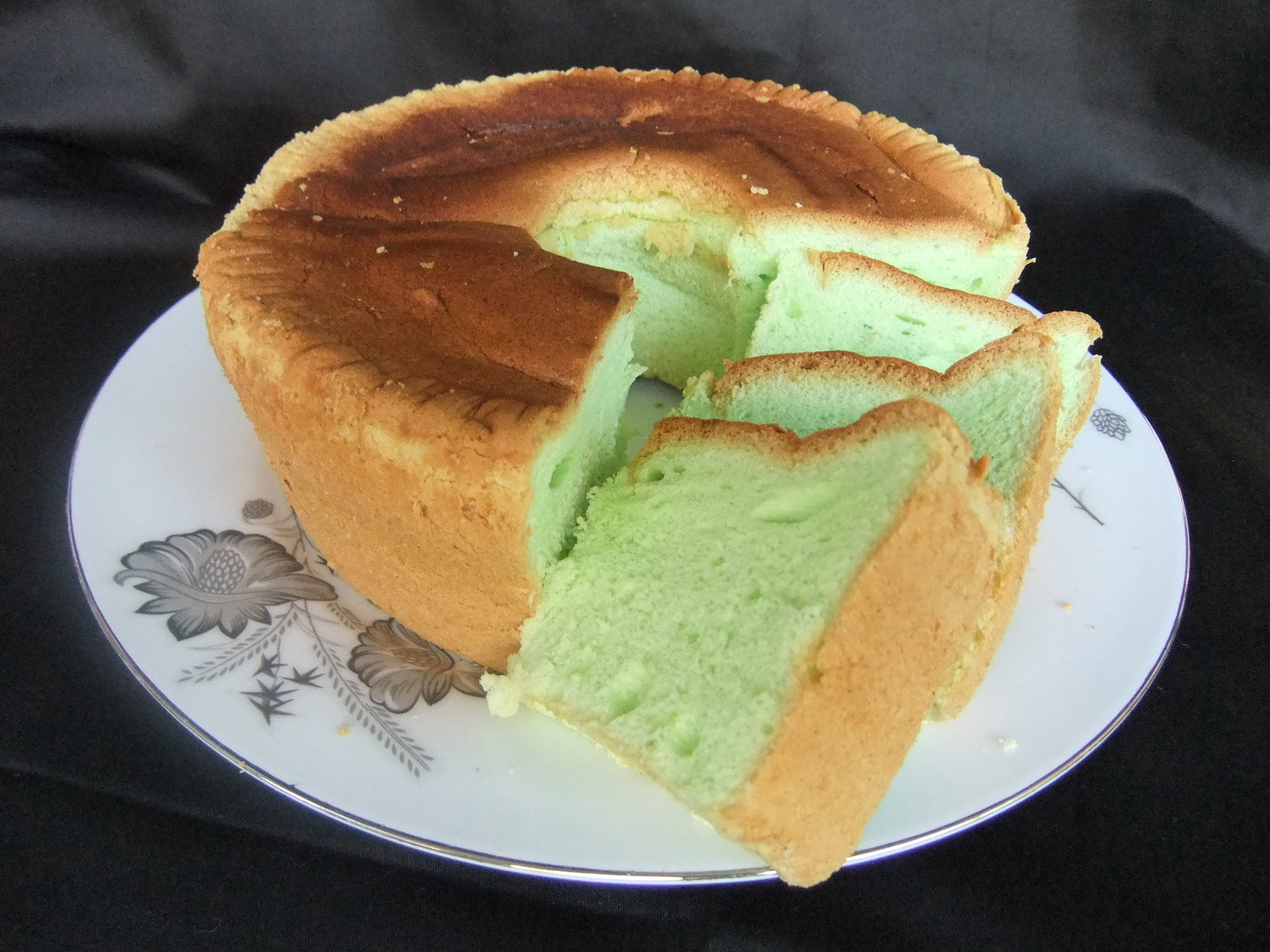 Cakes (pandan leaves flavor).